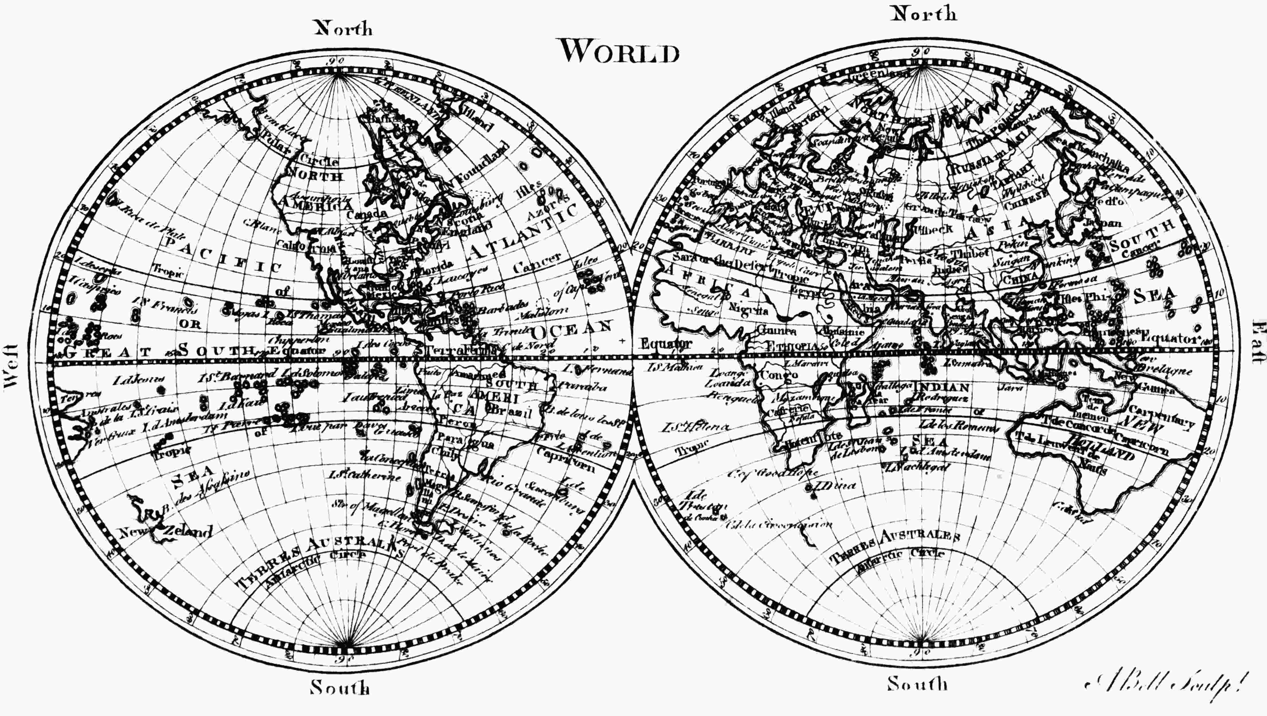 Map of the world, from Plate LXXVII